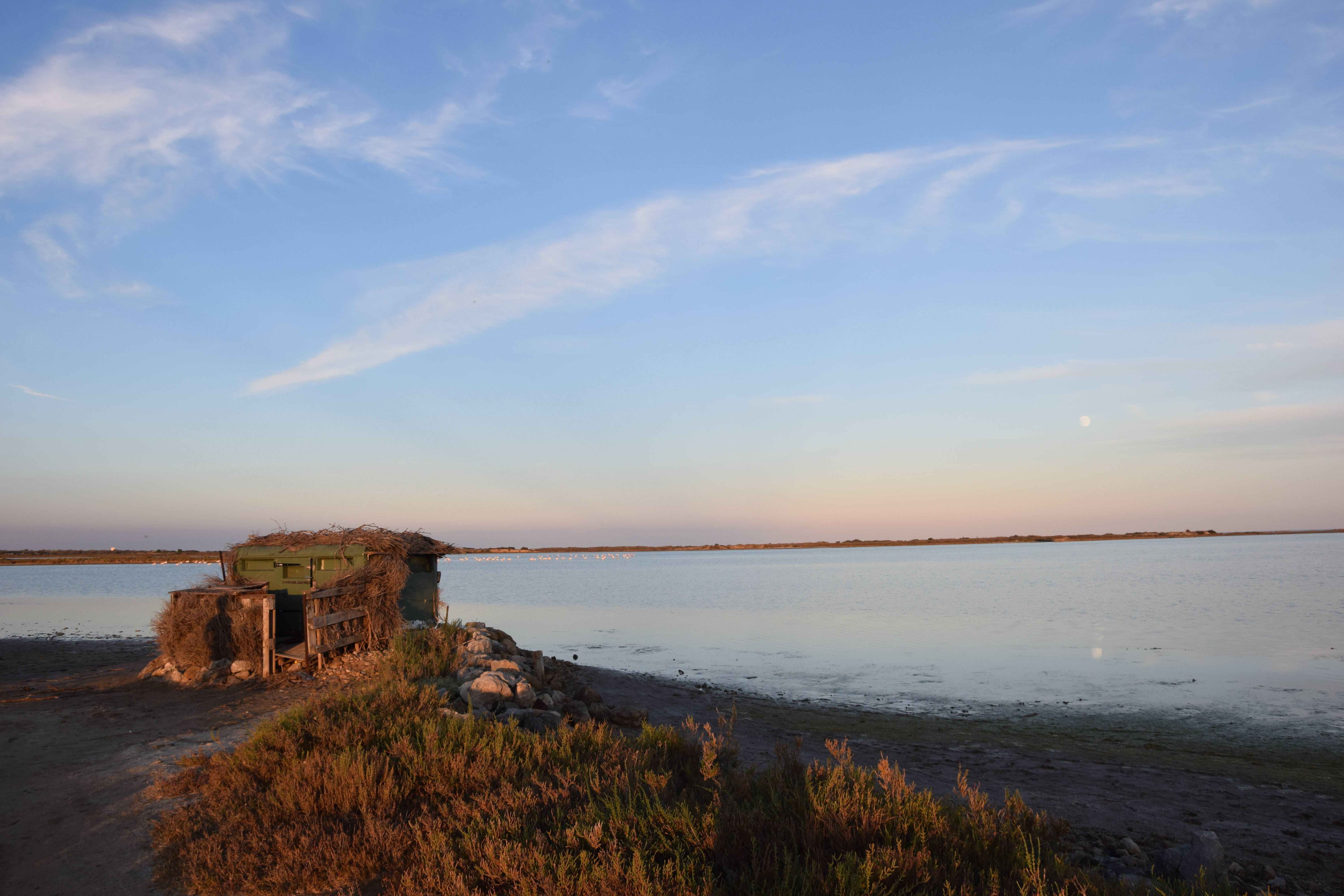 Étang de Pissevaches, Aude, France